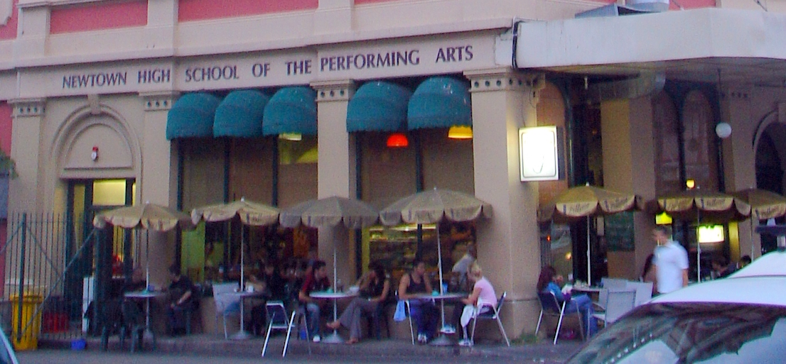 Corelli's Cafe beneath Newtown Perforing Arts School's performance space: St Georges Hall. King Street, Newtown, New South Wales, Australia